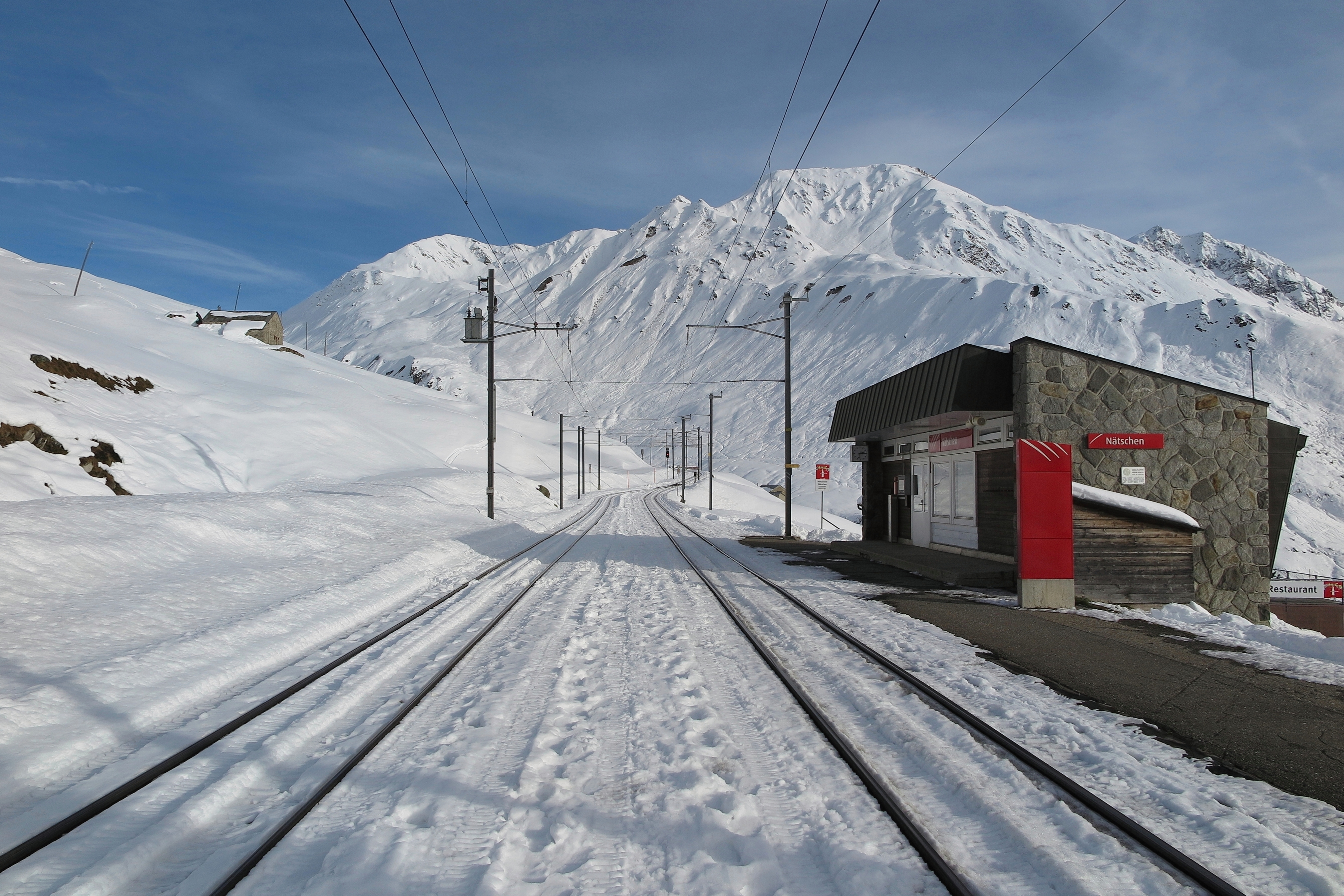 Station of the Matterhorn Gotthard Railway at 1842 m ü.M. (6043 ft ASL). Popular starting point for skiers and hikers. Switzerland, Nov 21, 2014.